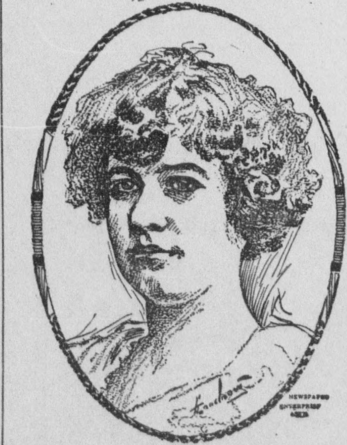 Celeste Chop-Groenevelt was a pianist born in New Orleans who was quite successful in Germany; her father Edward Groenevelt was a violinist.